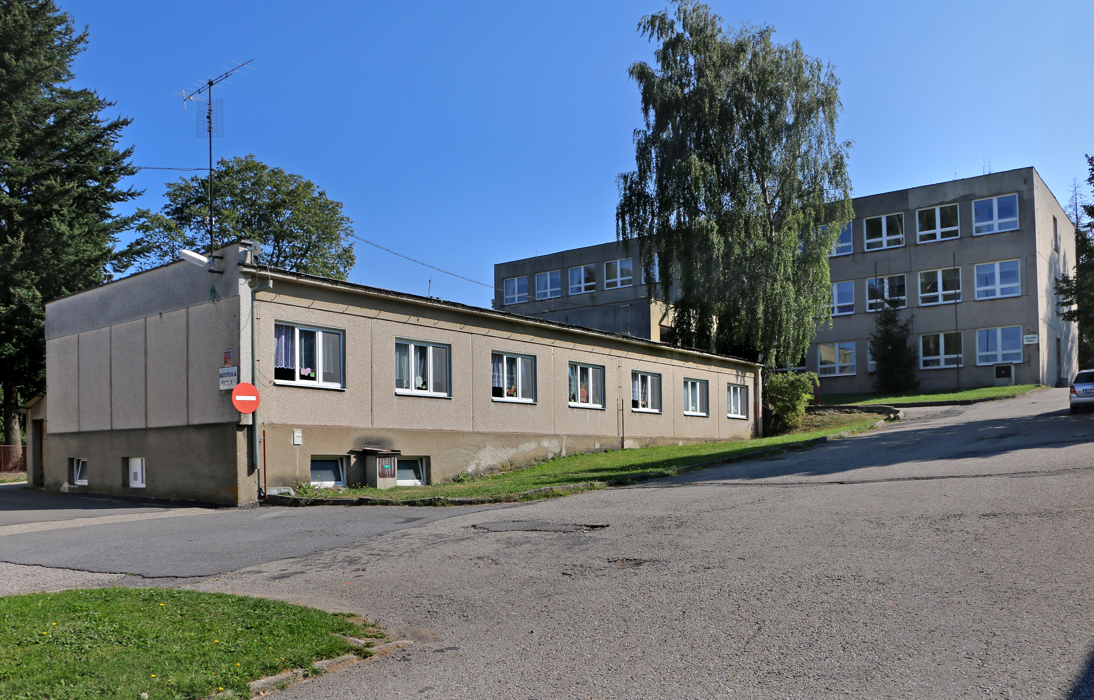 Kindergarten and elementary school in Vyskytná, Czech Republic.